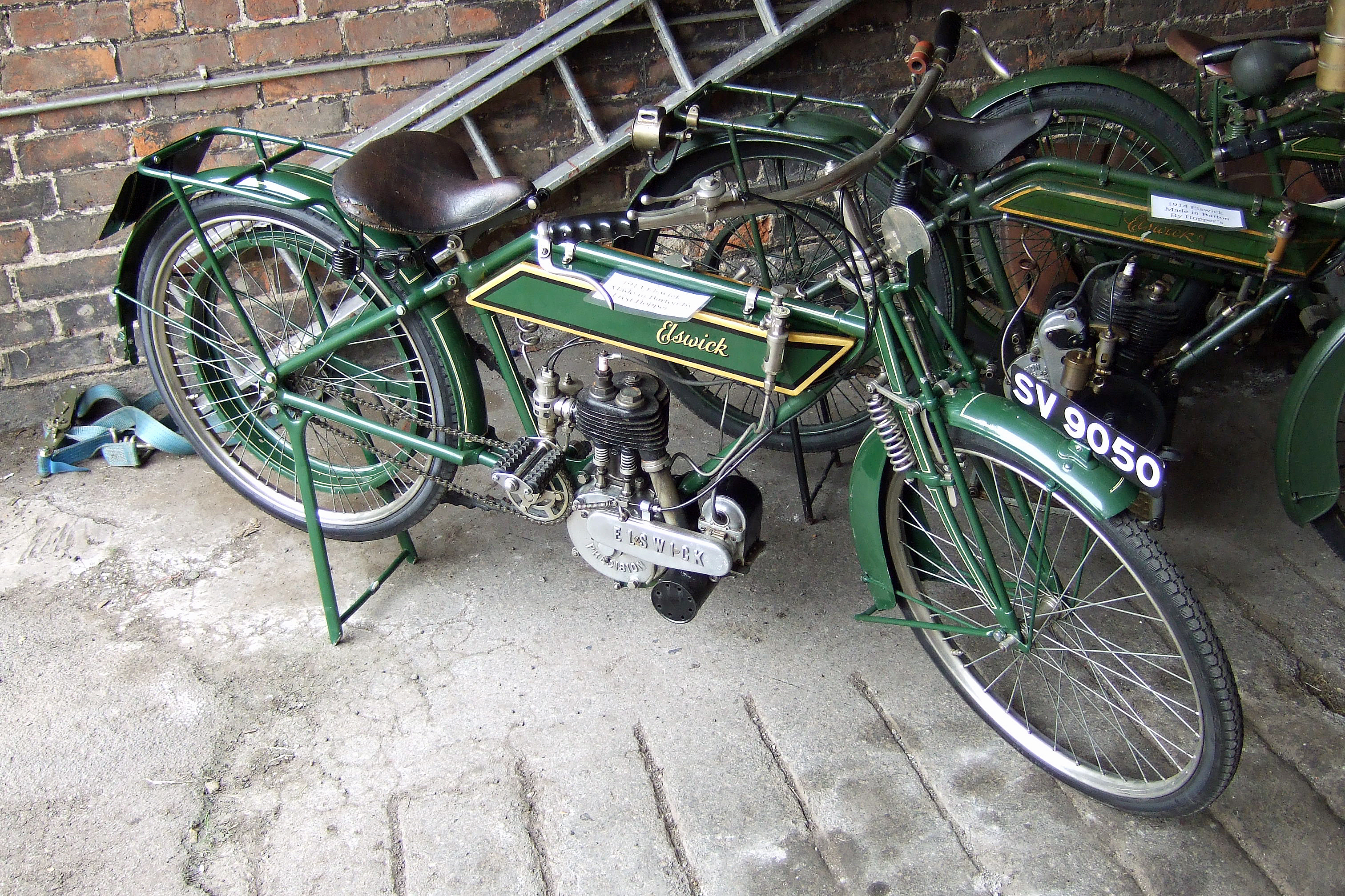 Elswick Hopper motor cycle of 1913 vintage manufactured in Barton Upon Humber.